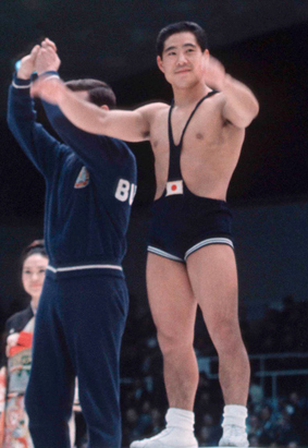 Osamu Watanabe, 1964 Olympics